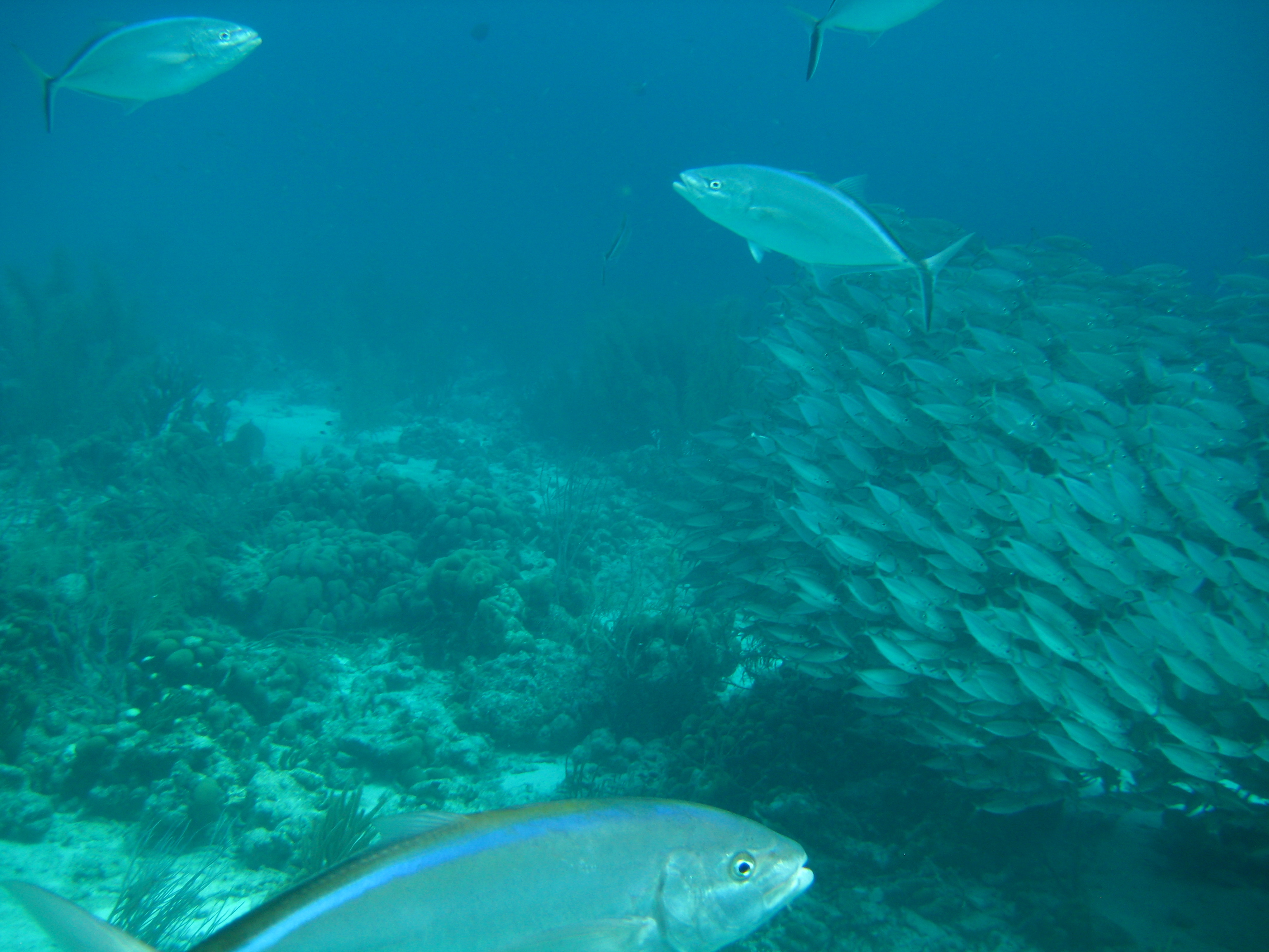 Bar jacks (C. ruber) working a baitball in the Netherland Antilles